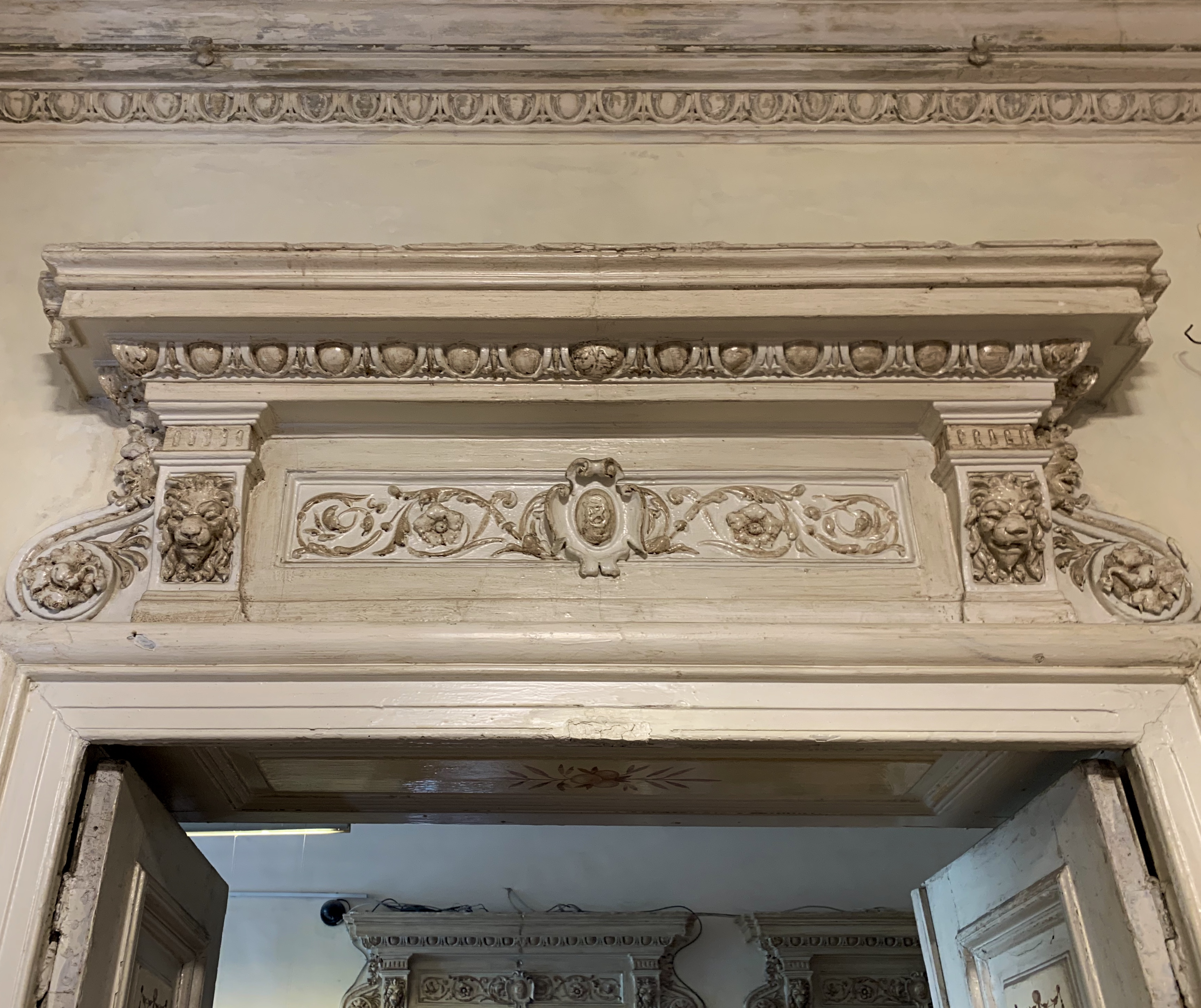 Neo-Renaissance ornaments above a door in the D.A. Sturdza House (Cărturești Verona when the photo was taken), each door having the same thing above them, in Bucharest (Romania)